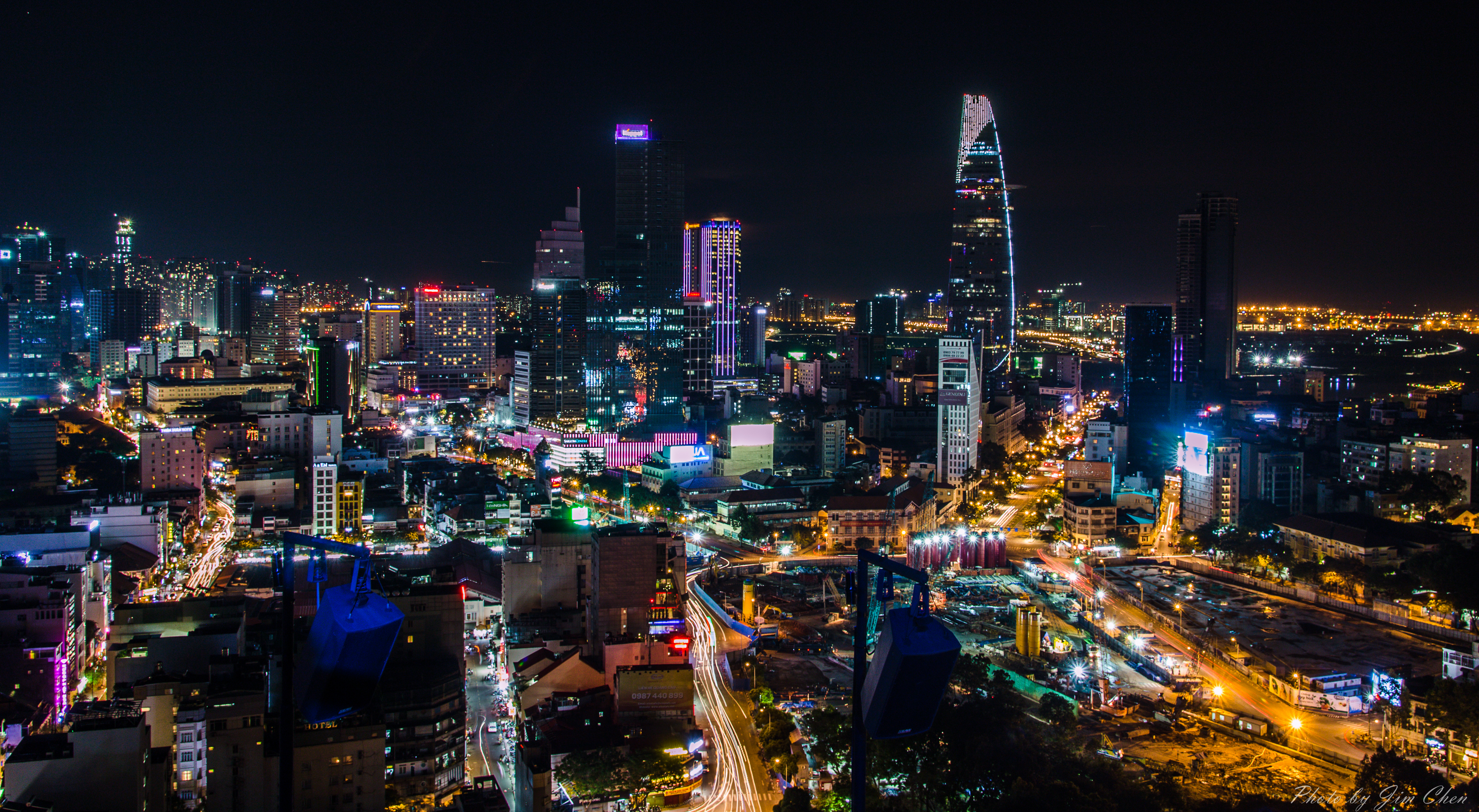 Ho Chi Minh City (Saigon) skyline at night in District 1, Vietnam